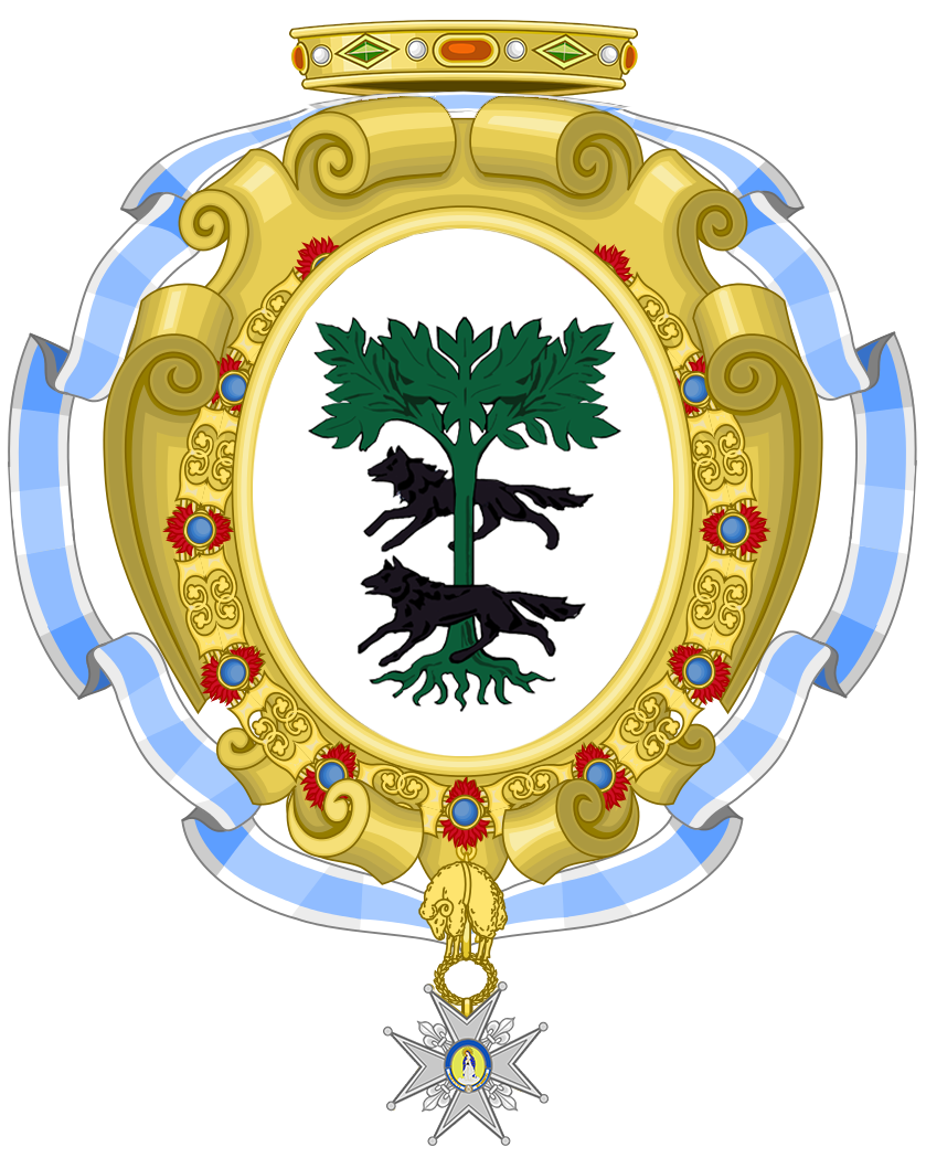 Coat of arms of Lorenzo de Arrazola with Order of the Golden Fleece collar and Order of Charles III Grand Cross